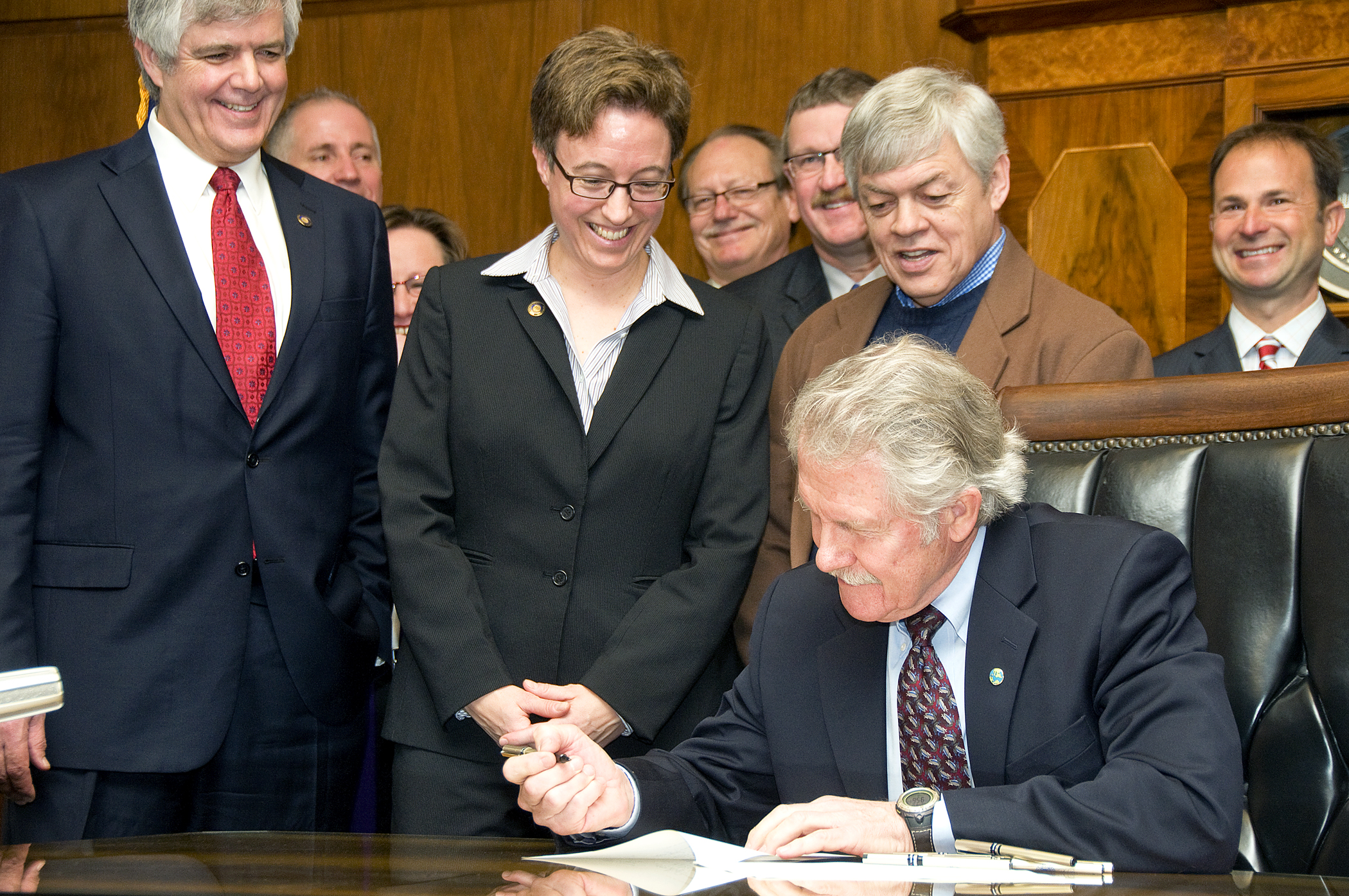 Oregon Governor John Kitzhaber signs House Bill 2800 in the 2013 regular session, as House Speaker Tina Kotek and others look on. Far right is former Senator Ryan Deckert.